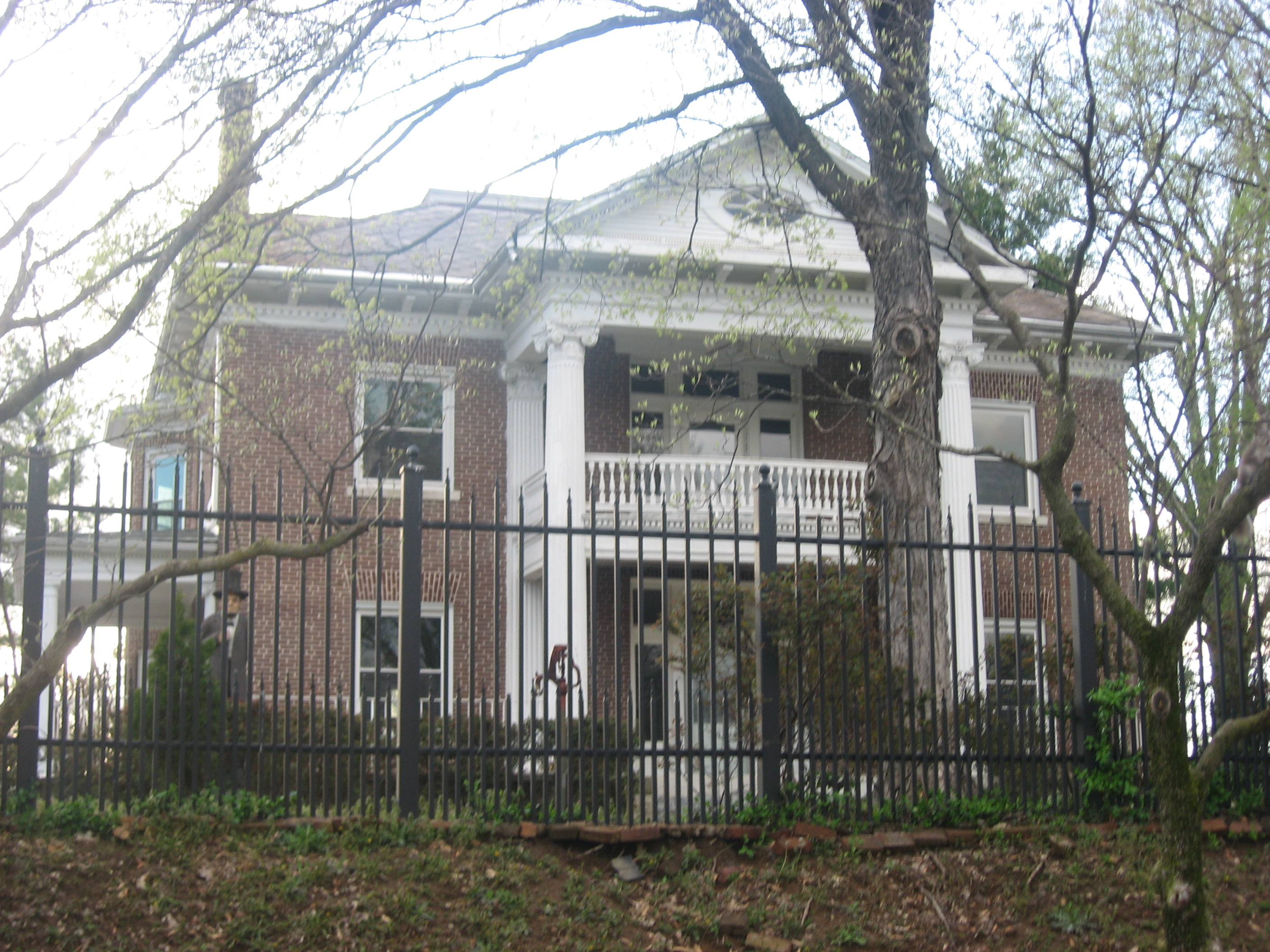 Front of the Abraham Russell Ponder House, located at 141 S. Louisiana Avenue in Cape Girardeau, Missouri, United States. Built in 1905, it is listed on the National Register of Historic Places.